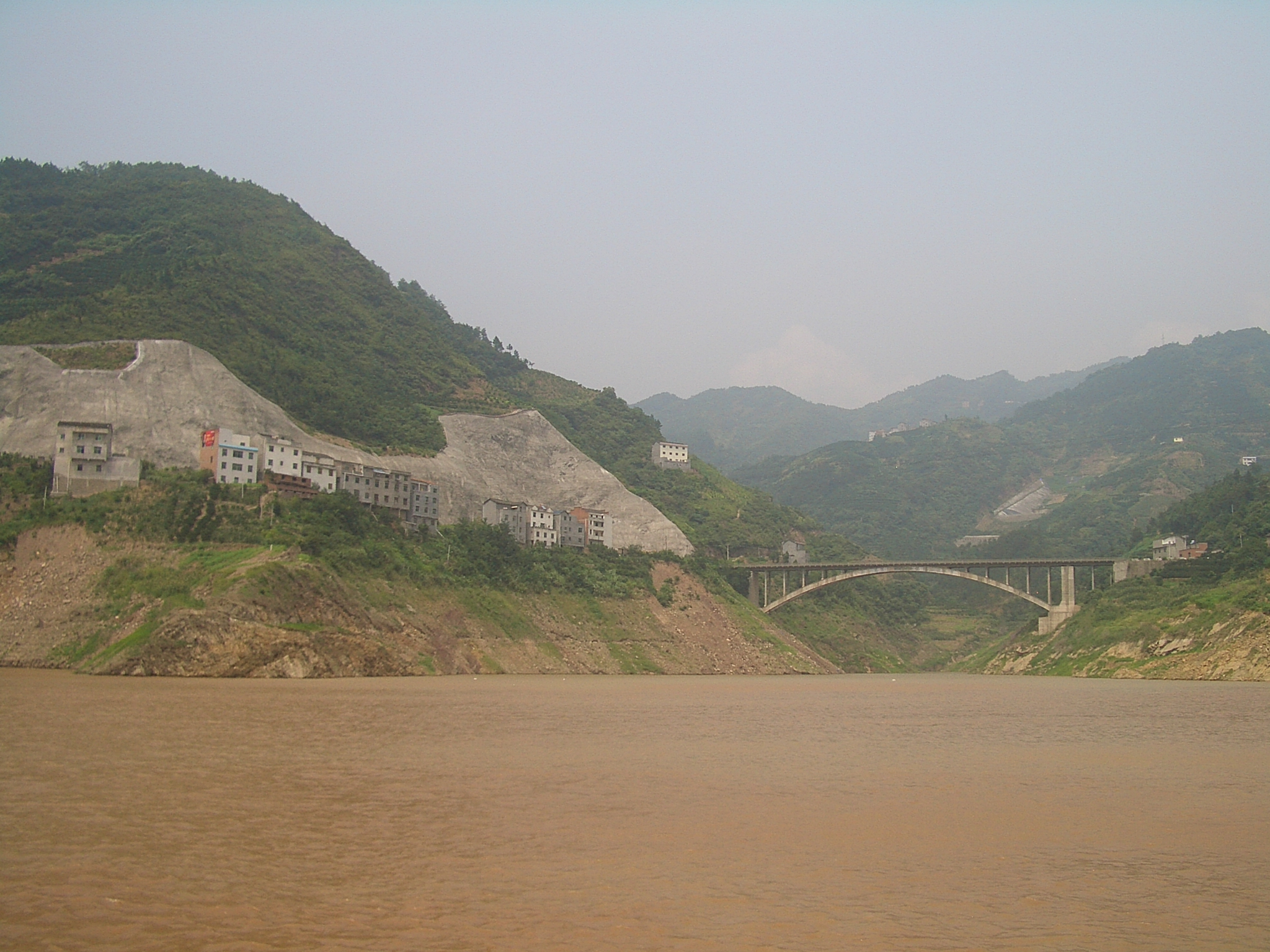 Guizhou Town (归州镇), Zigui County, Hubei. The bridge is over a small river (a tributary of the Yangtze), not over the Yangtze itself